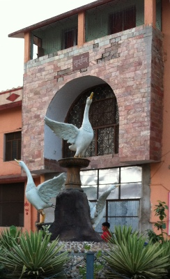 Three-swan sculpture with the residence of Jagadguru Rambhadracharya in background in Tulsi Peeth, Chitrakoot, Satna, Madhya Pradesh.